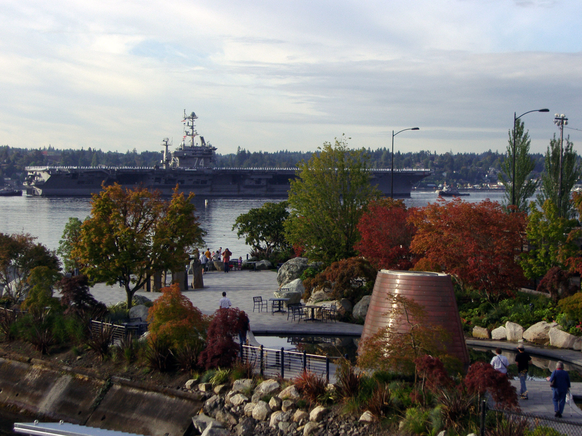 The U.S.S. John C. Stennis arriving in Bremerton on August 31, 2007. Summary The U.S.S. John C. Stennis arriving in Bremerton on August 31, 2007. Captioned As { }